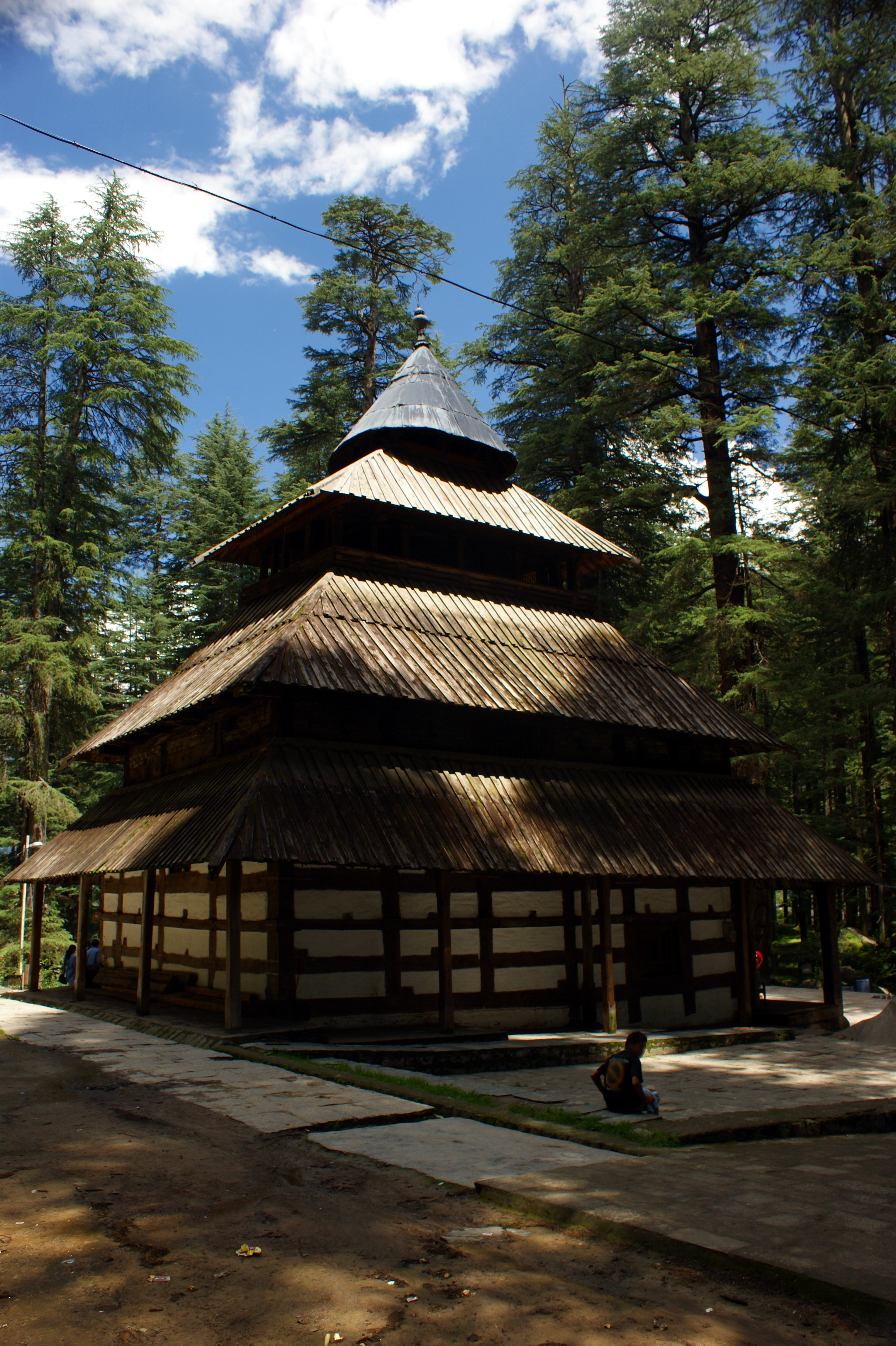 Hidimdi Temple, Manali